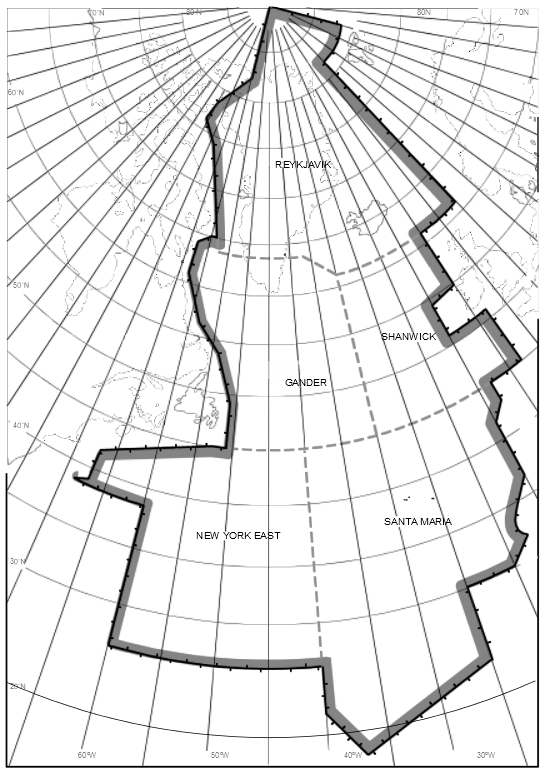 Redrawn from NAT Doc 007